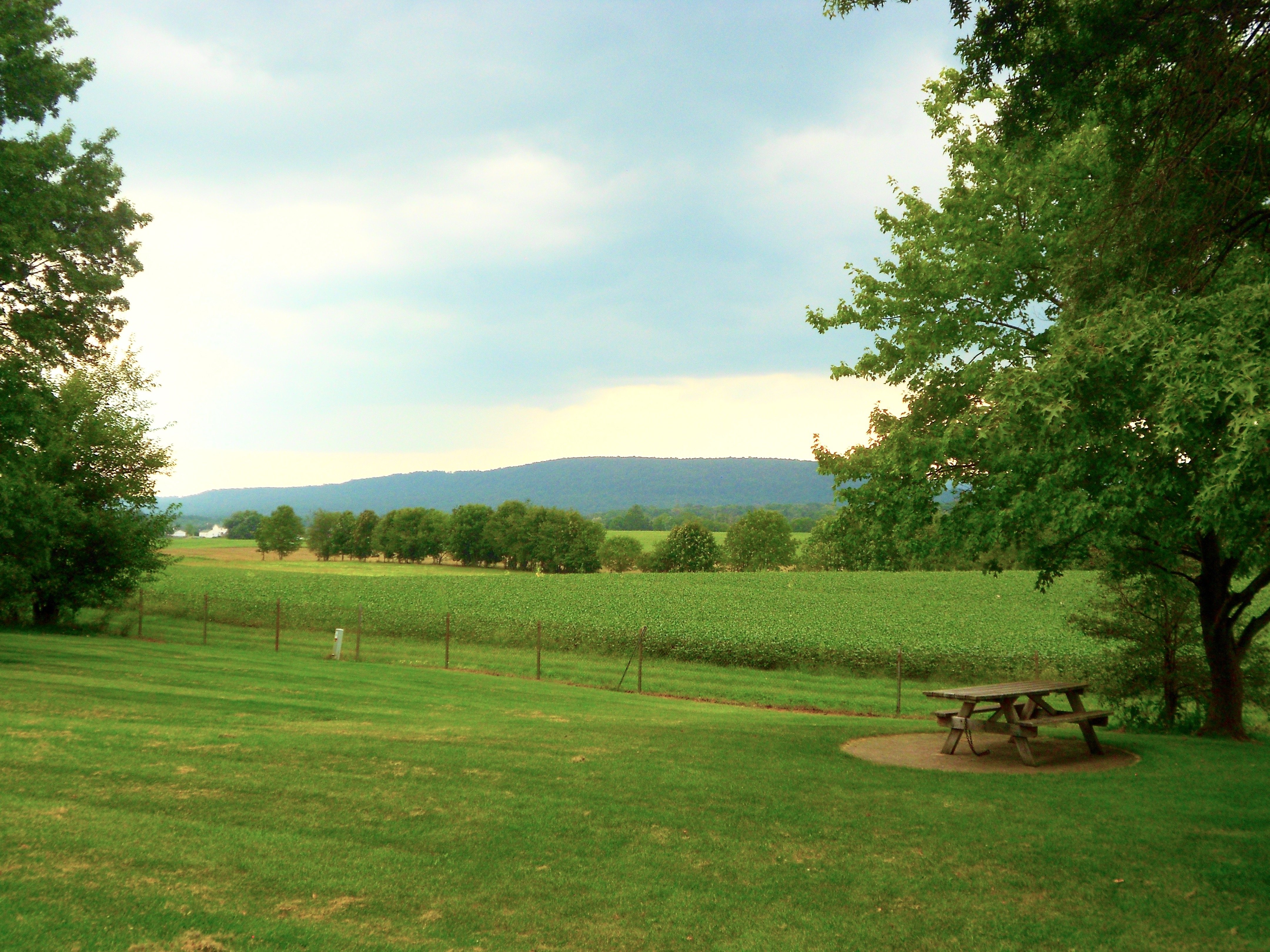 Looking north from the rest stop on I-81 (south) in East Hanover Township, Dauphin County, Pennsylvania